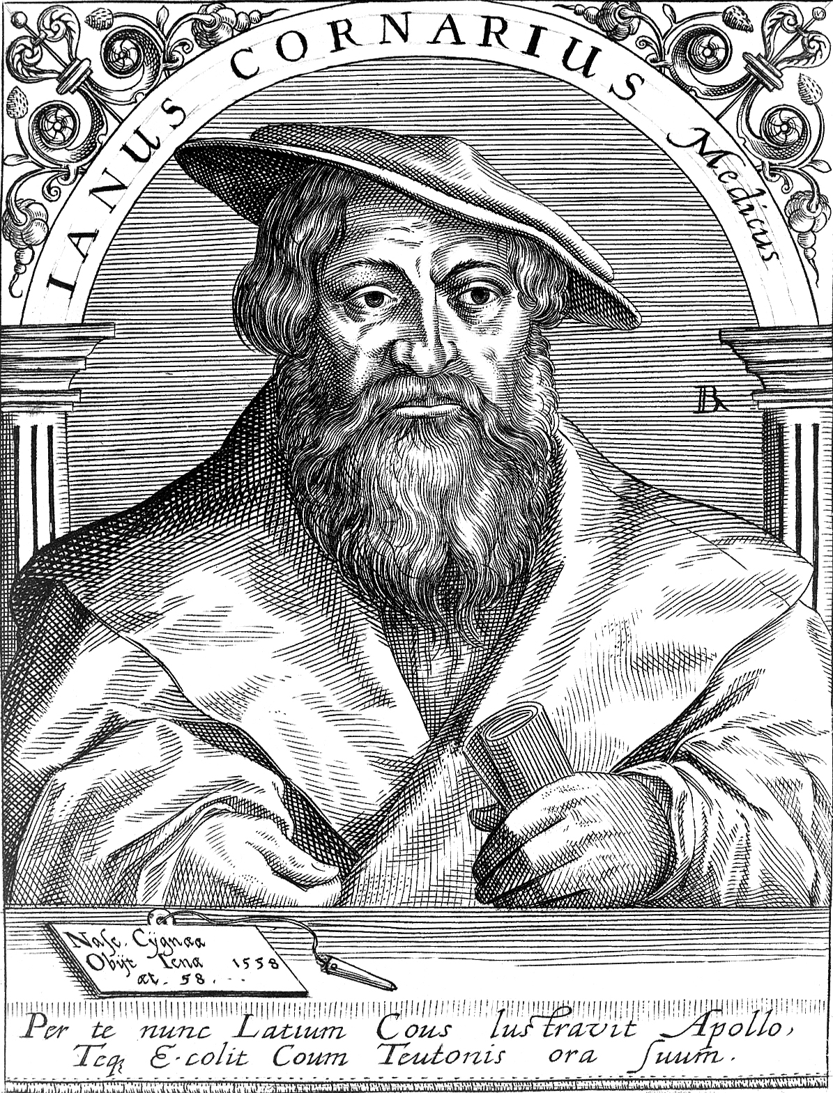 Portrait of Janus Cornarius Iconographic Collections Keywords: Janus Cornarius; Thomas de Bry